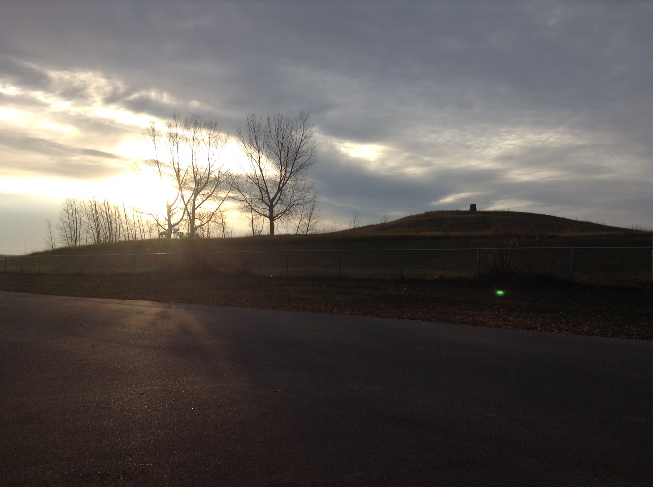 Pilot Butte, Saskatchewan Hill